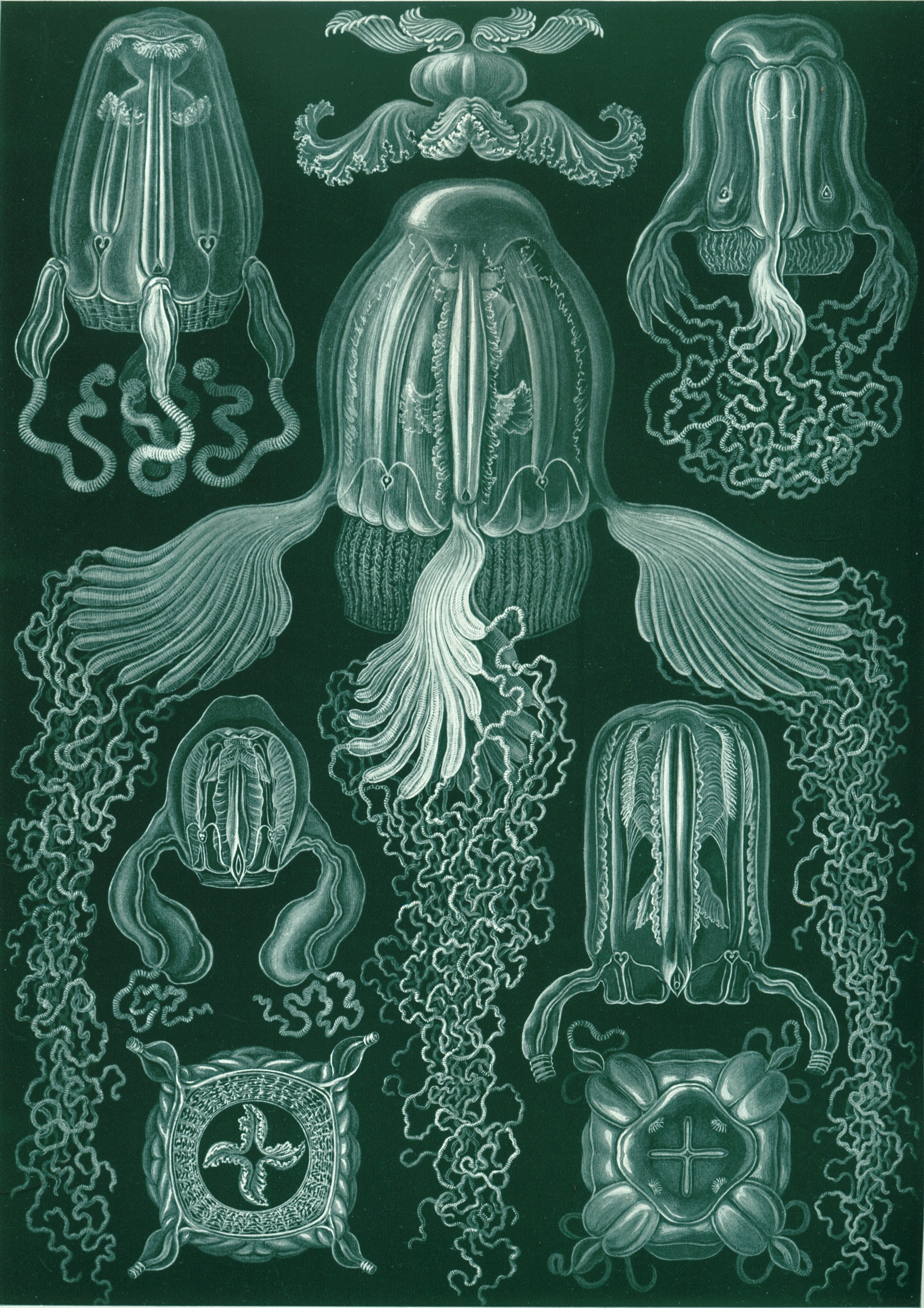 Chirodropus palmatus (Haeckel) = Chirodropus palmatus Haeckel, 1880, from the side Chiropsalmus quadrigatus (Haeckel) = Chiropsoides quadrigatus (Haeckel, 1880), from the side Charybdea obeliscus (Haeckel) = Carybdea obeliscus Haeckel, 1880 / Alatina obeliscus (Haeckel, 1880)?, from the side Charybdea obeliscus (Haeckel) = Carybdea obeliscus Haeckel, 1880 / Alatina obeliscus (Haeckel, 1880)?, alimentary tract Charybdea murrayana (Haeckel) = Carybdea murrayana Haeckel, 1880, from below Charybdea murrayana (Haeckel) = Carybdea murrayana Haeckel, 1880, from above Procharybdis tetraptera (Haeckel) = Alatina tetraptera (Haeckel, 1880), from the side Tamoya prismatica (Haeckel) = Tamoya haplonema F.Müller, 1859, from the side